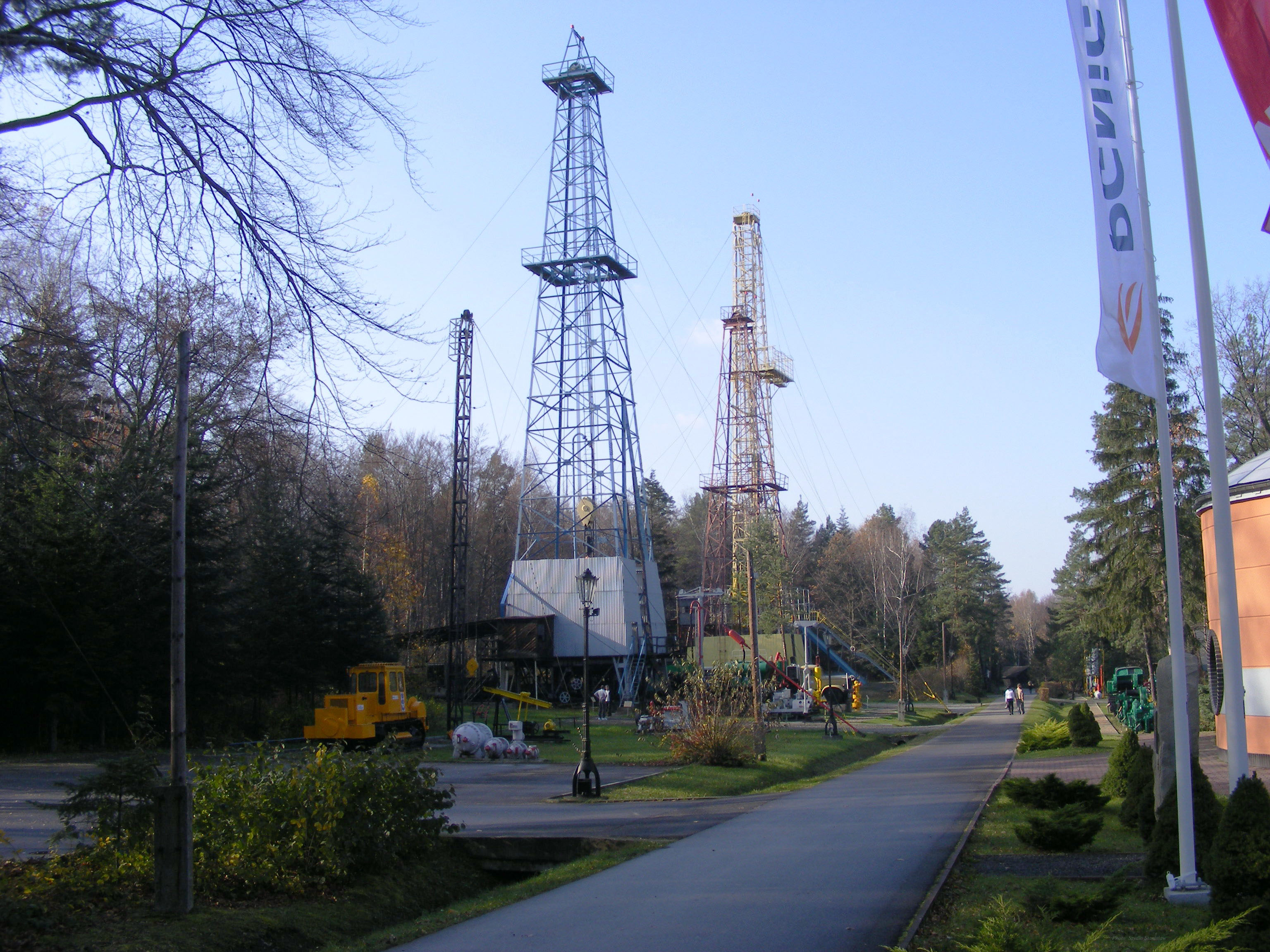 Museum of oil industry in Bobrka